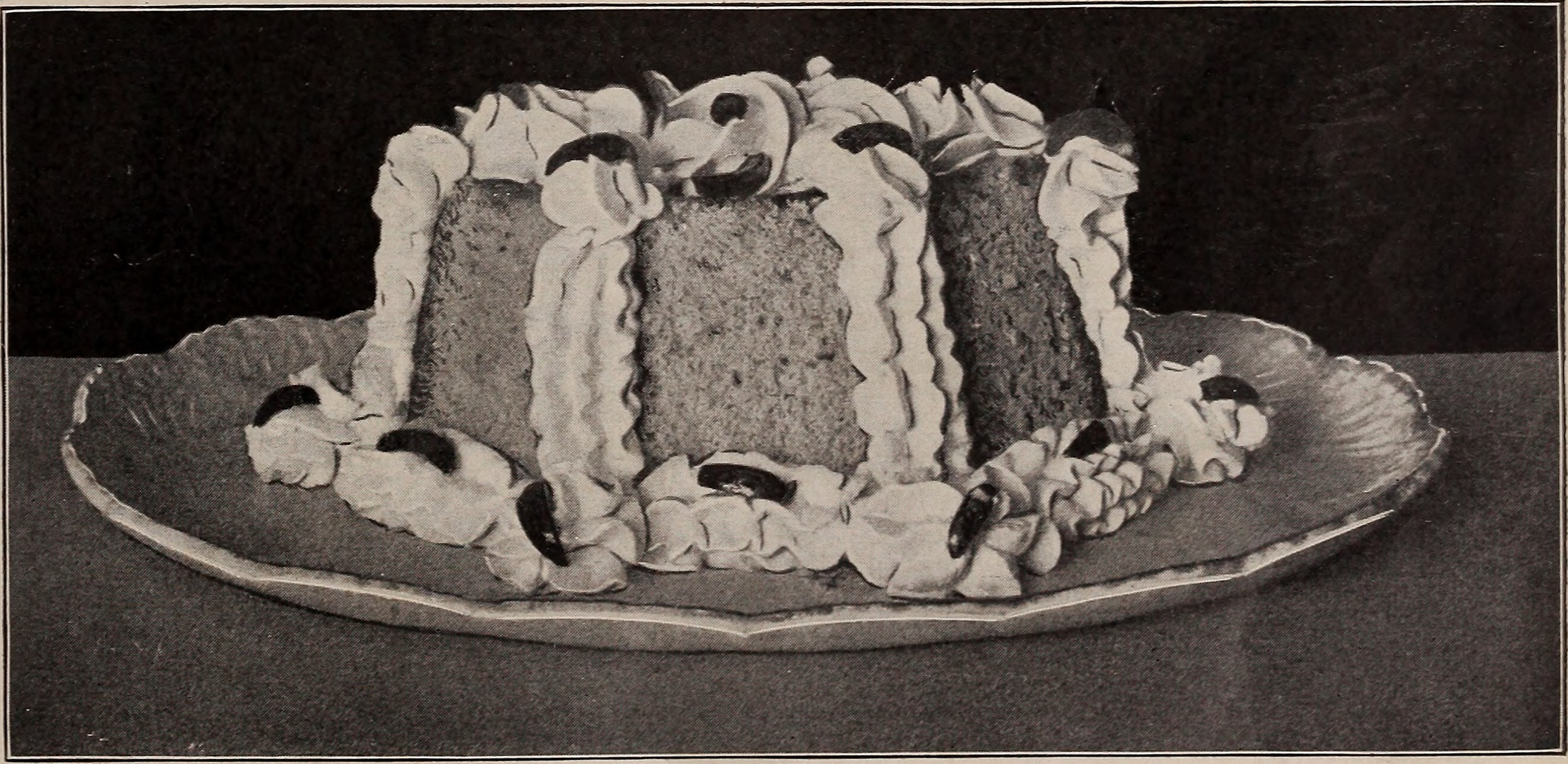 A simple Charlotte russe, quickly made. Title: The Boston Cooking School magazine of culinary science and domestic economics Year: 1896 (1890s) Authors: Hill, Janet McKenzie, 1852-1933, ed Boston Cooking School (Boston, Mass.) Subjects: Home economics Cooking Publisher: Boston : Boston Cooking-School Magazine Text Appearing Before Image: Easter Cake Cut in Three Pieces, Each a Good Sized Loaf long, pour upon the whites of threeeggs, beaten dry. Beat occasionallyuntil cold. Filling for Easter Cake Chop fine one pound of raisins, halfa pound of citron and one slice ofcrystallized pineapple. Put the mix-ture into a double boiler with one- A Simple Charlotte Russe Line a charlotte mould with slices ofstale sponge cake. Beat one cup anda half of double cream, one-third a cupof granulated sugar and a teaspoonfulof vanilla, or three tablespoonfuls ofsherry, until firm to the bottom of thebowl; turn the cream mixture into the Text Appearing After Image: A Simple Charlotte Russe, Quickly Made fourth a cup of brandy, the yolks ofeight eggs, slightly beaten, half a cupof butter and one-fourth a teaspoonful, lined mould, making it level on the top,and set aside in a cool place. Whenready to serve, have the other half cup 432 THE BOSTON COOKING-SCHOOL MAGAZINE of cream, two tablespoonfuls of sugar,and a few drops of flavoring beatenfirm. Unmold the charlotte on a